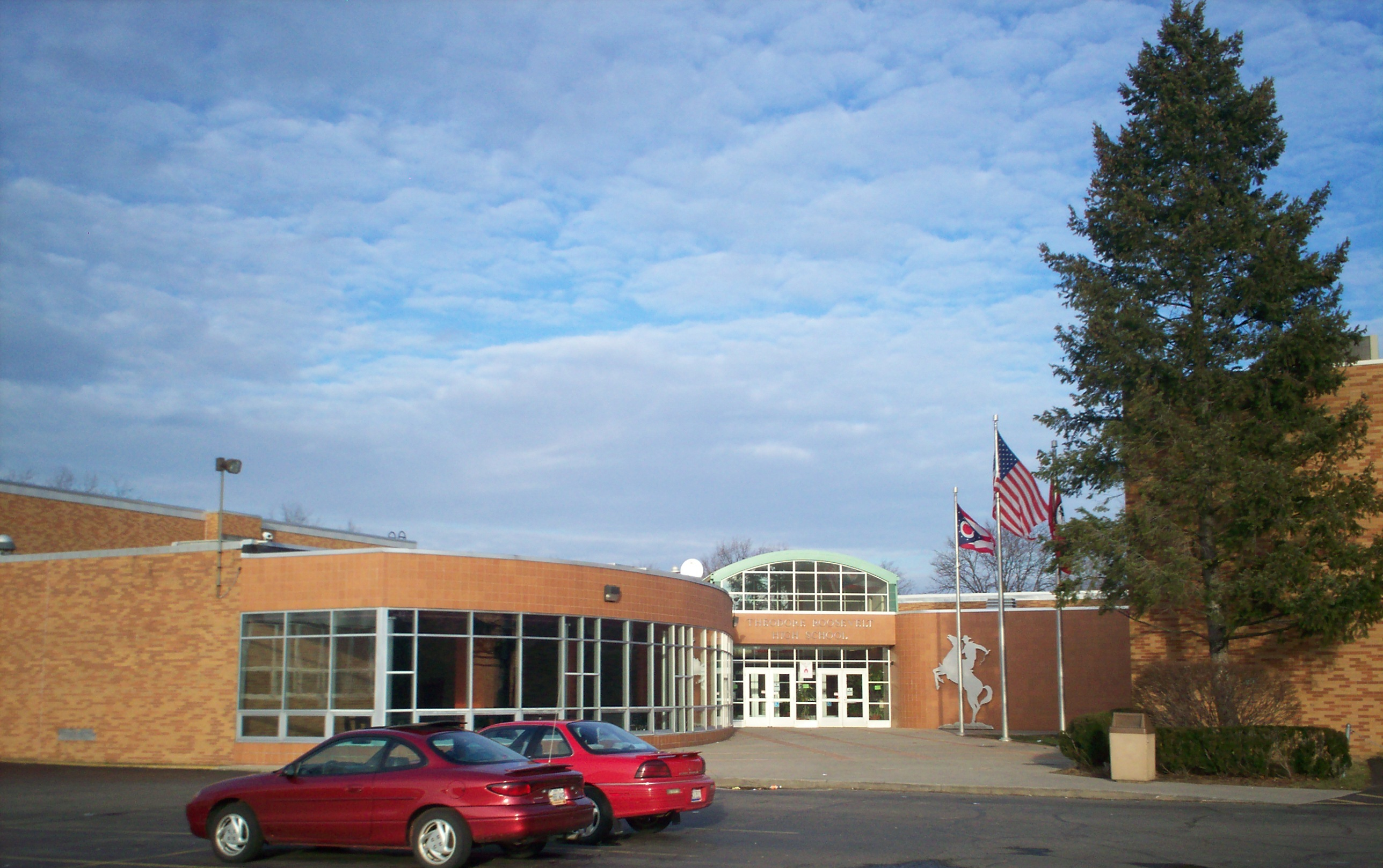 View of cafeteria entrance to Theodore Roosevelt High School in Kent, Ohio. This part of the building was renovated to its current form in 1997. Originally uploaded to English Wikipedia 3 February 2007